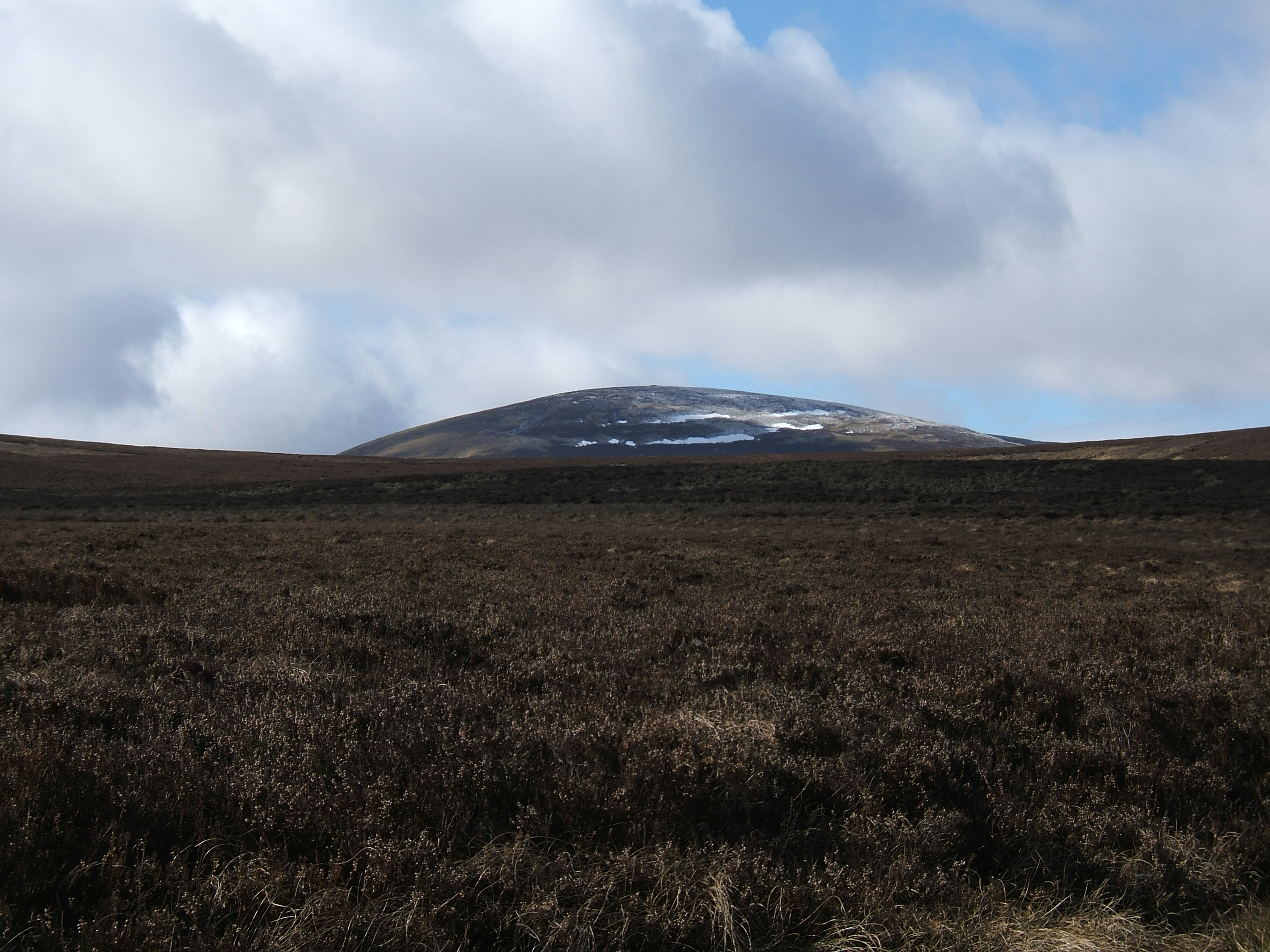 The Cheviot, Northumberland, from Broadhope Hill, 3 April 2006